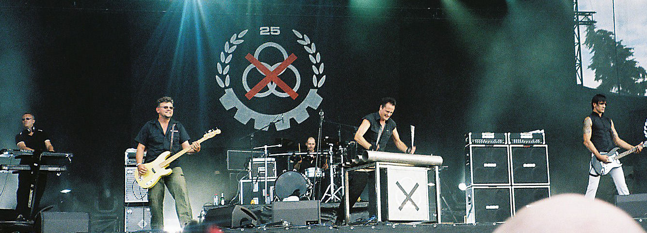 A concert of the german band DIE KRUPPS at the MERA LUNA 2006 festival